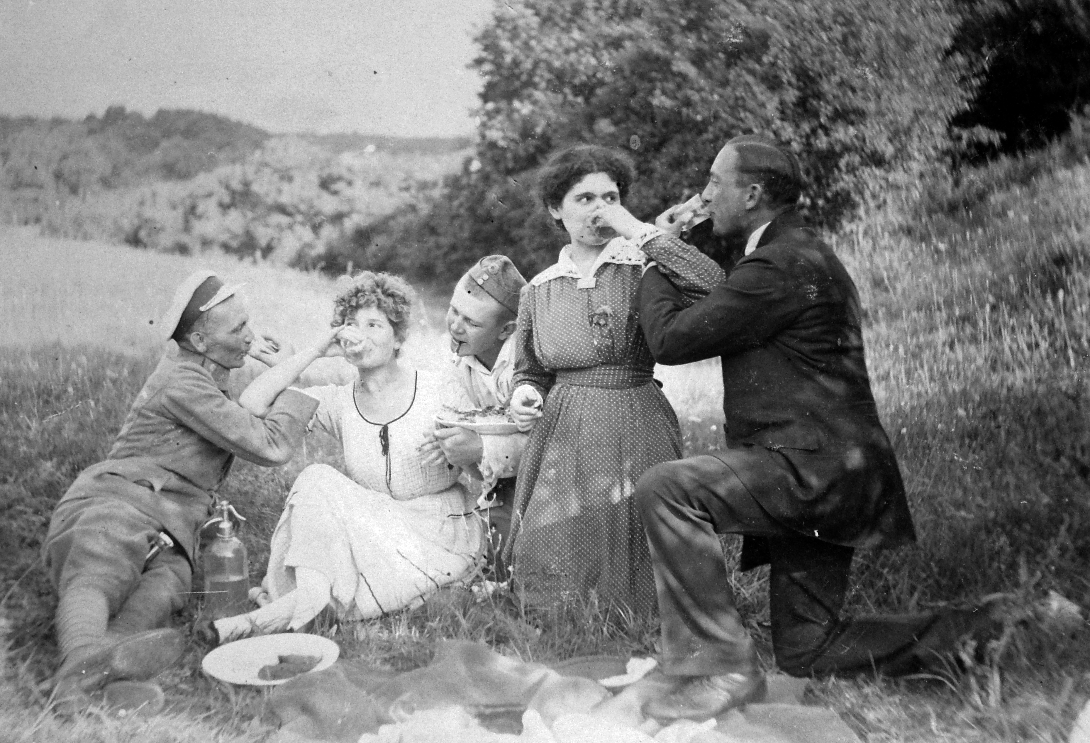 Tags: tableau, drinking, field, fun, soda water bottle, picnic